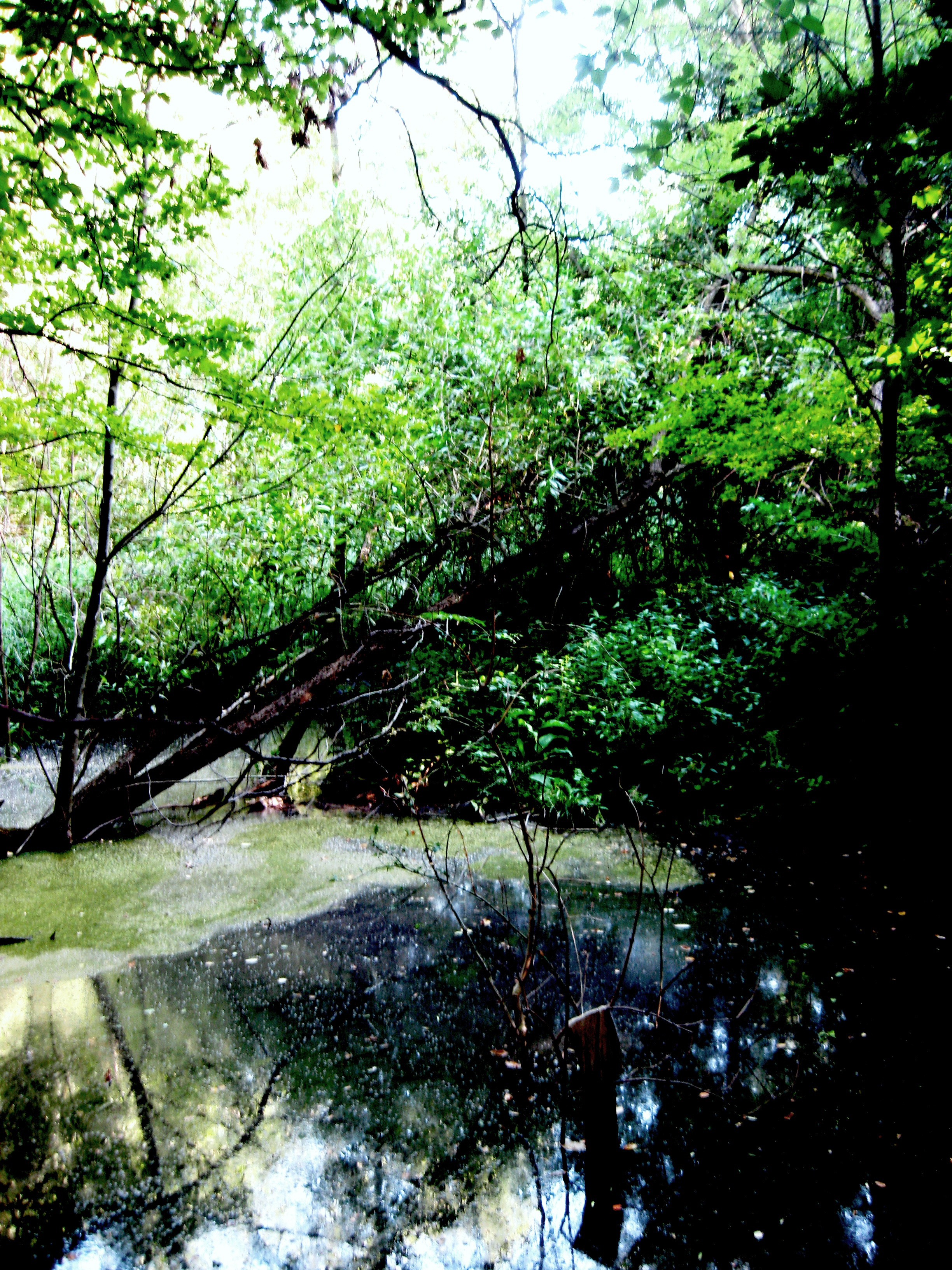 Pond in Comana Forest, a natural preserve in Giurgiu County, Romania.